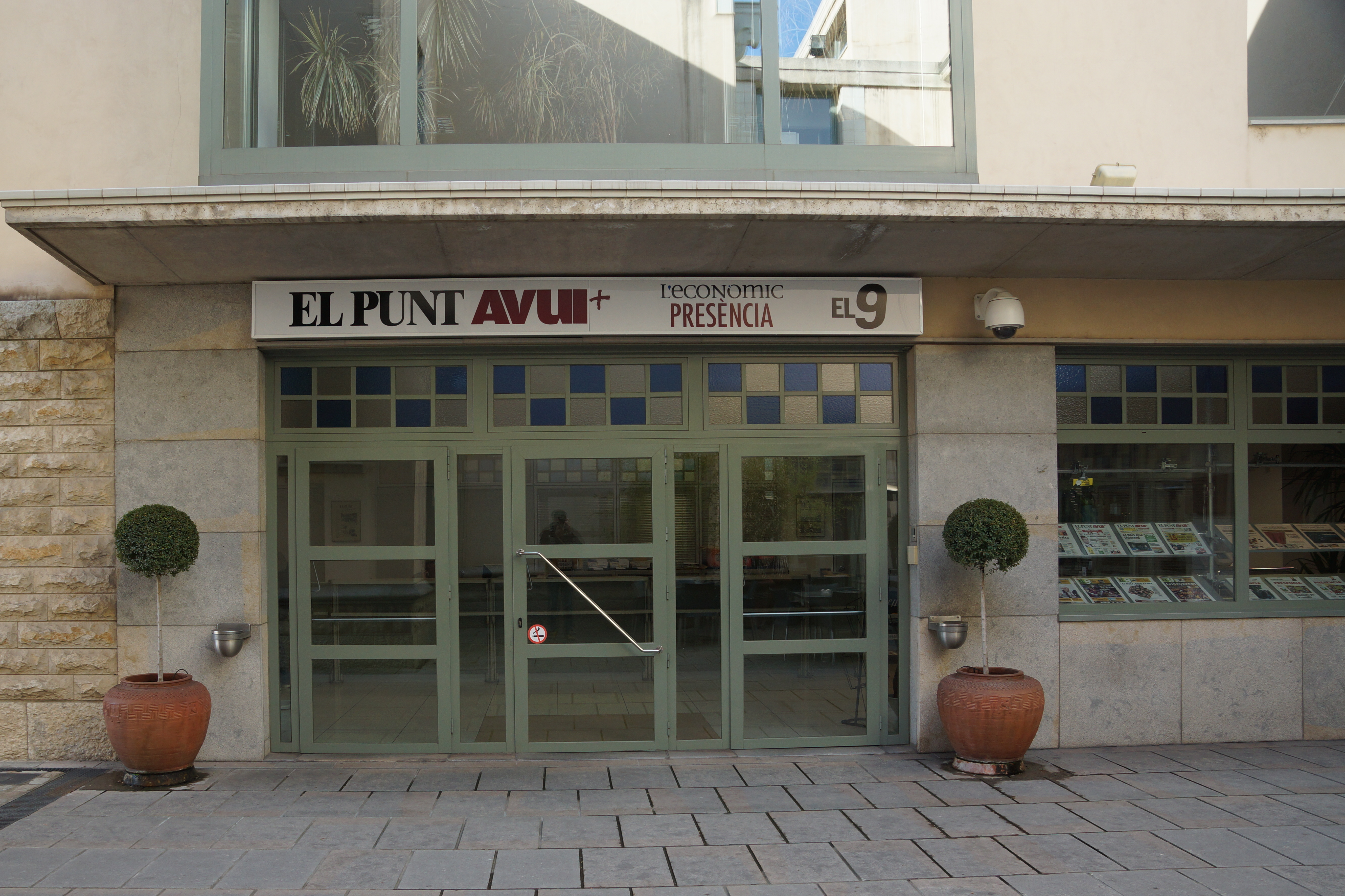 Girona, Catalonia: Entrance of the head office of the newspaper El Punt Avui, Presència, el 9 and L'econòmic